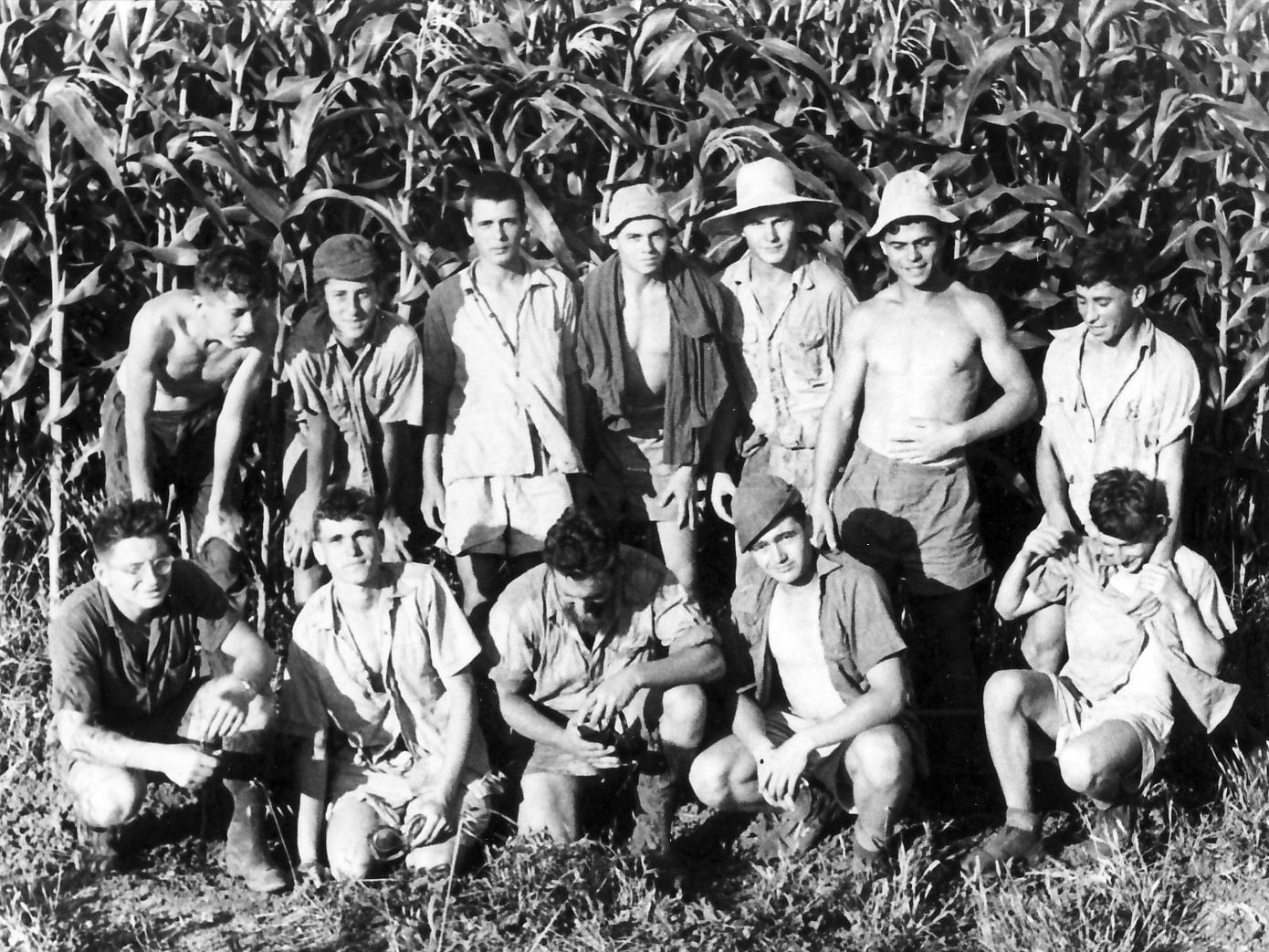 Gan-Shmuel sg8- 31, Agriculture in Israel